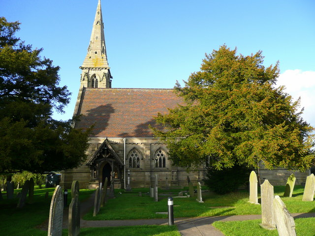 St John's parish church, Marchington Woodlands, Staffordshire, seen from the south